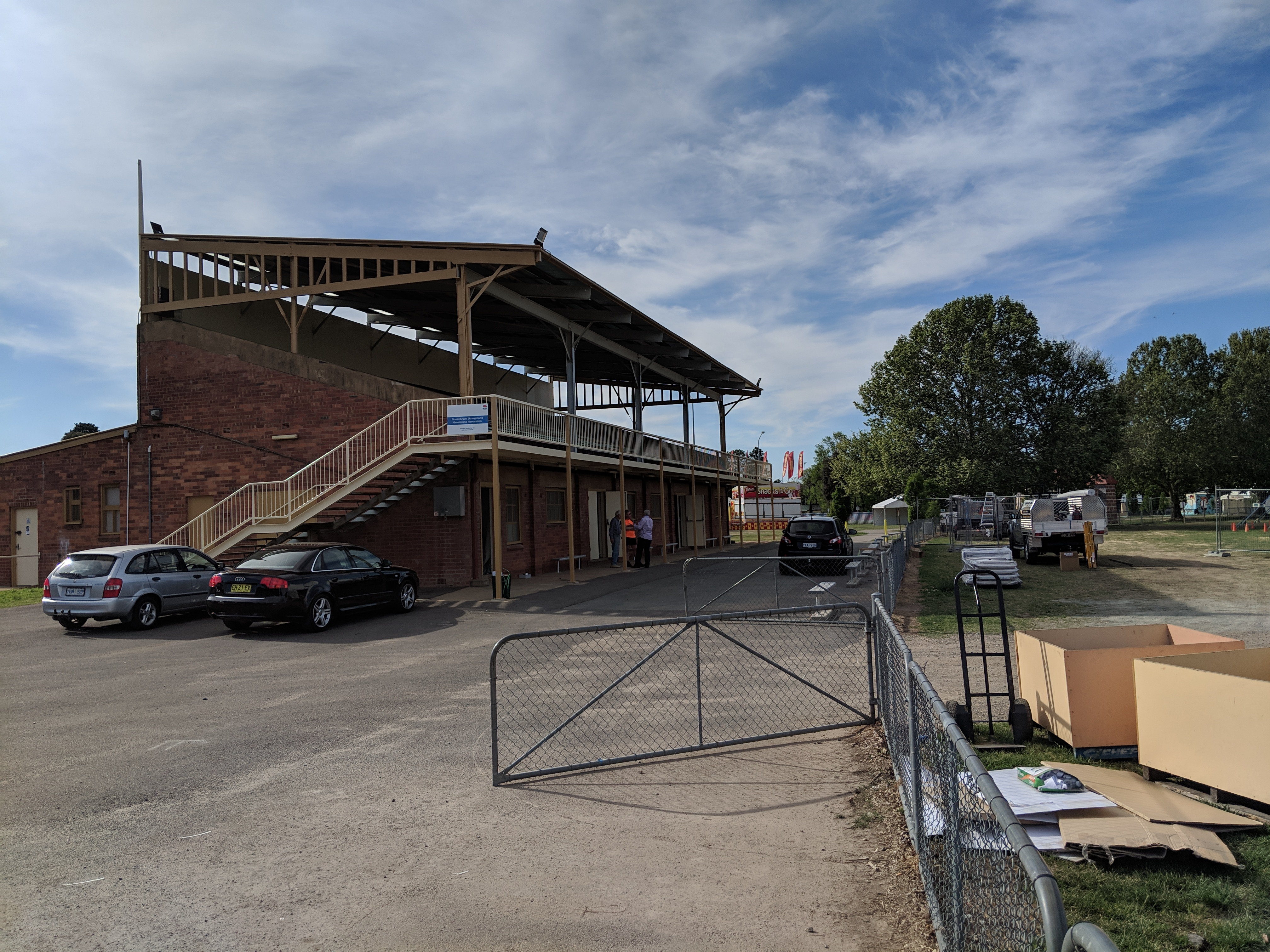 Queanbeyan showground grandstand 2018